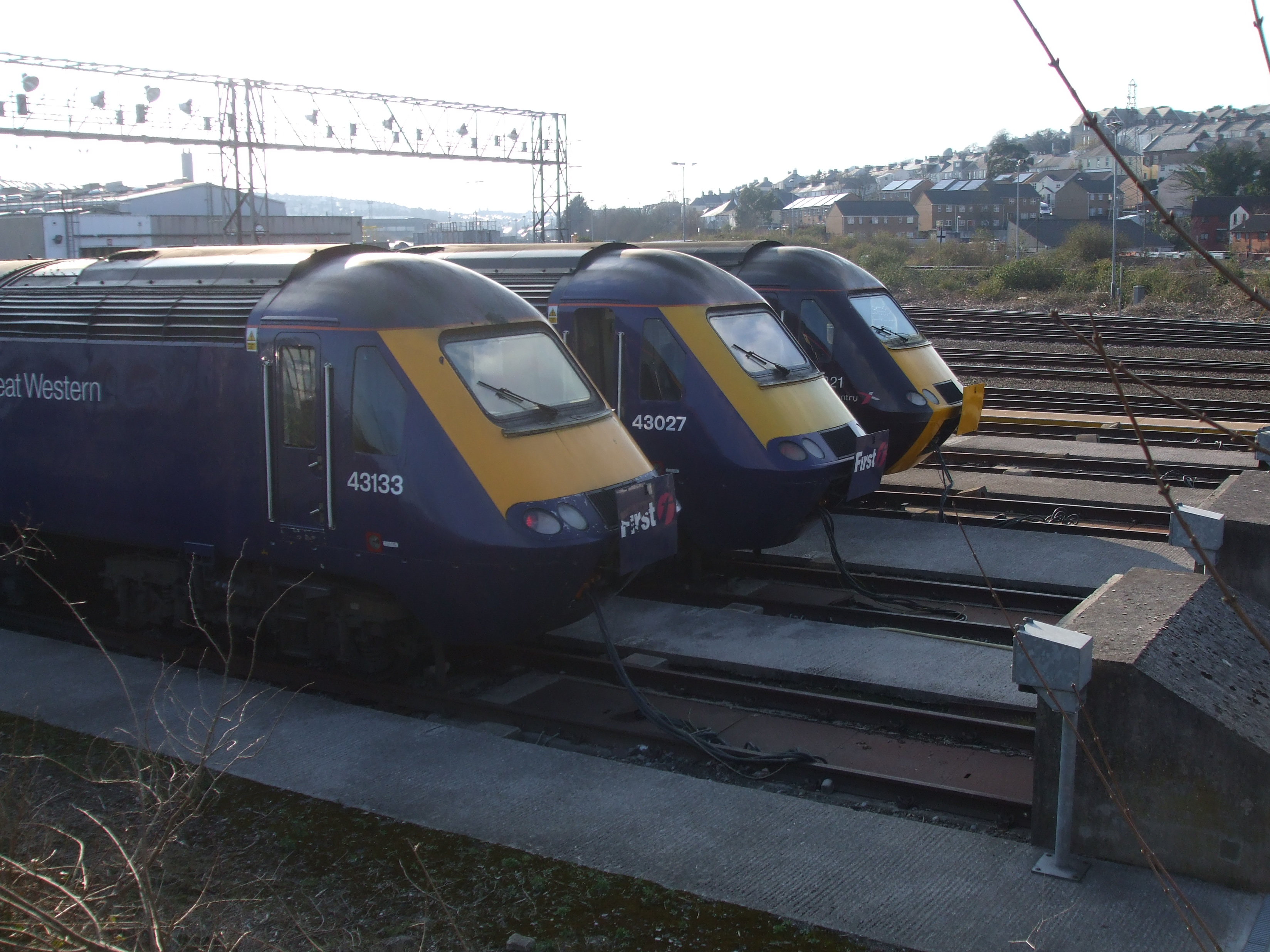 Three HSTs at Laira TMD 30/03/13. Two FGW and one CrossCountry